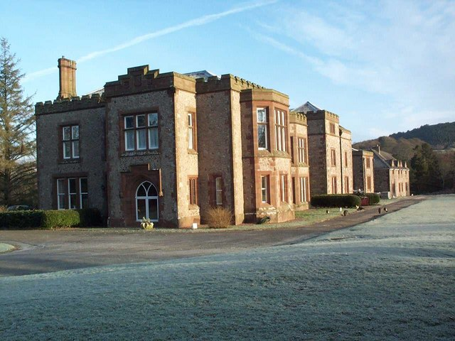 Irton Hall Former school for children with cerebral palsy among other things.